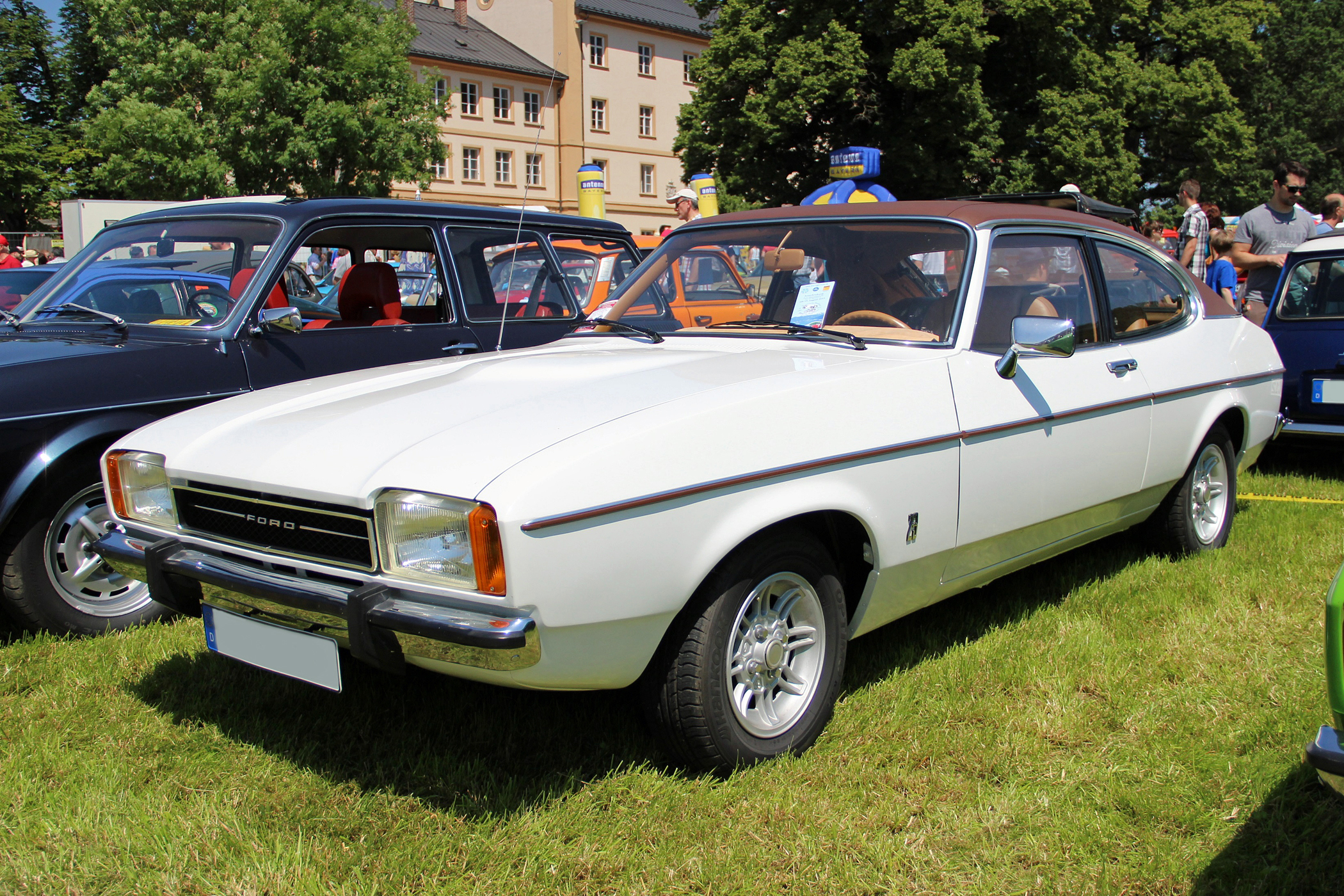 1974 Ford Capri II 2.3 Ghia